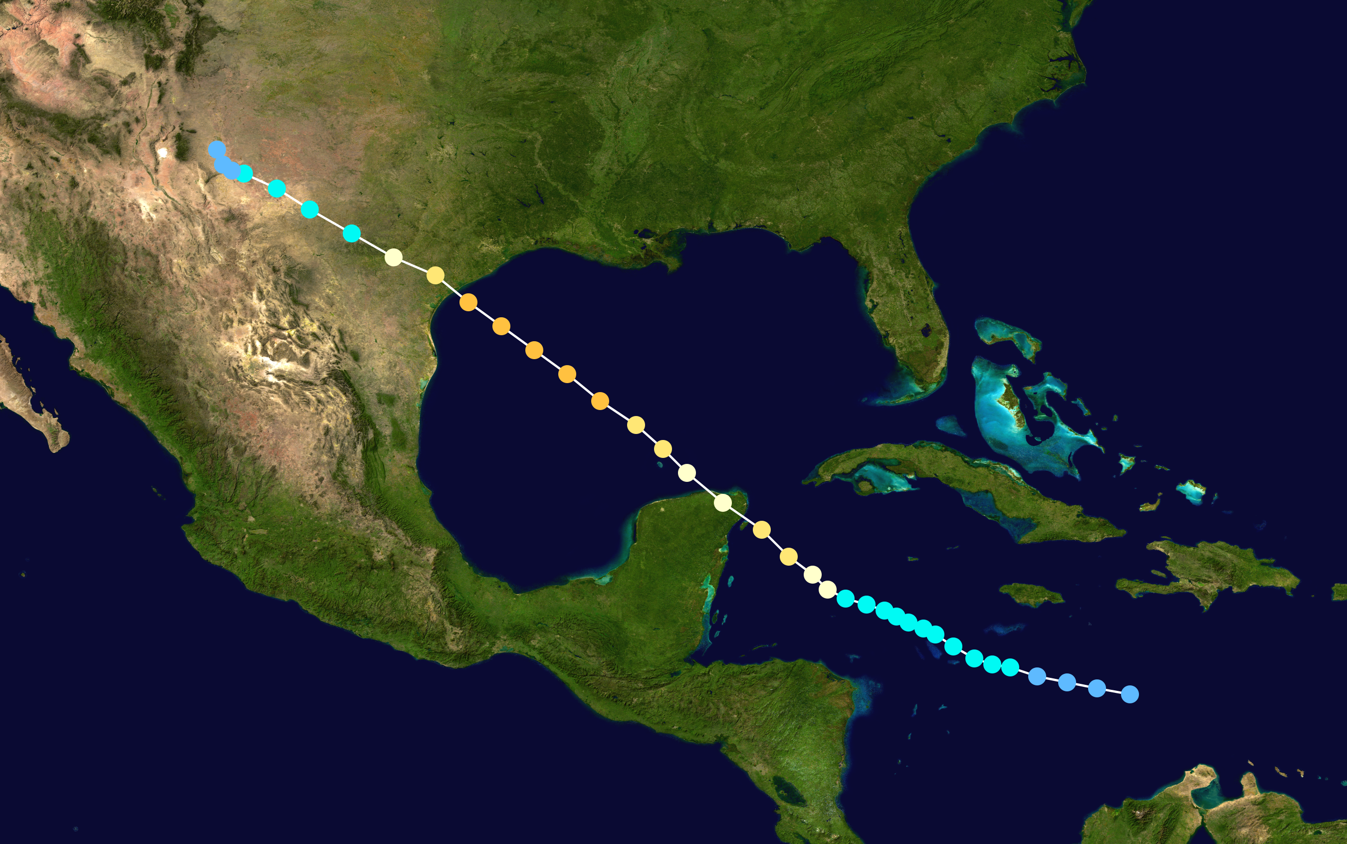 1942 Atlantic hurricane 3 track. Uses the color scheme from the Saffir-Simpson Hurricane Scale.